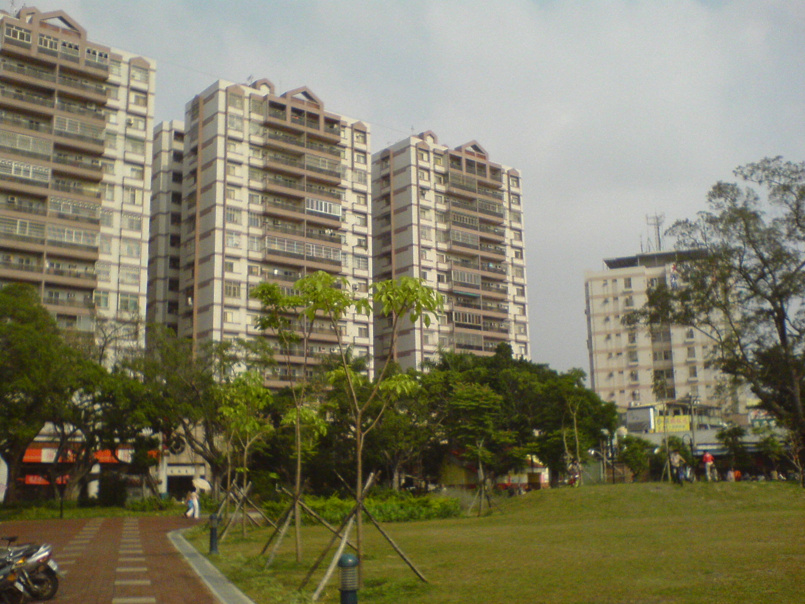 Yuanlin Park & Yuanlin Public Housing @ Yuanlin Township, Changhua County. 中文（台灣）: 彰化縣員林鎮員林公園與員林國宅。